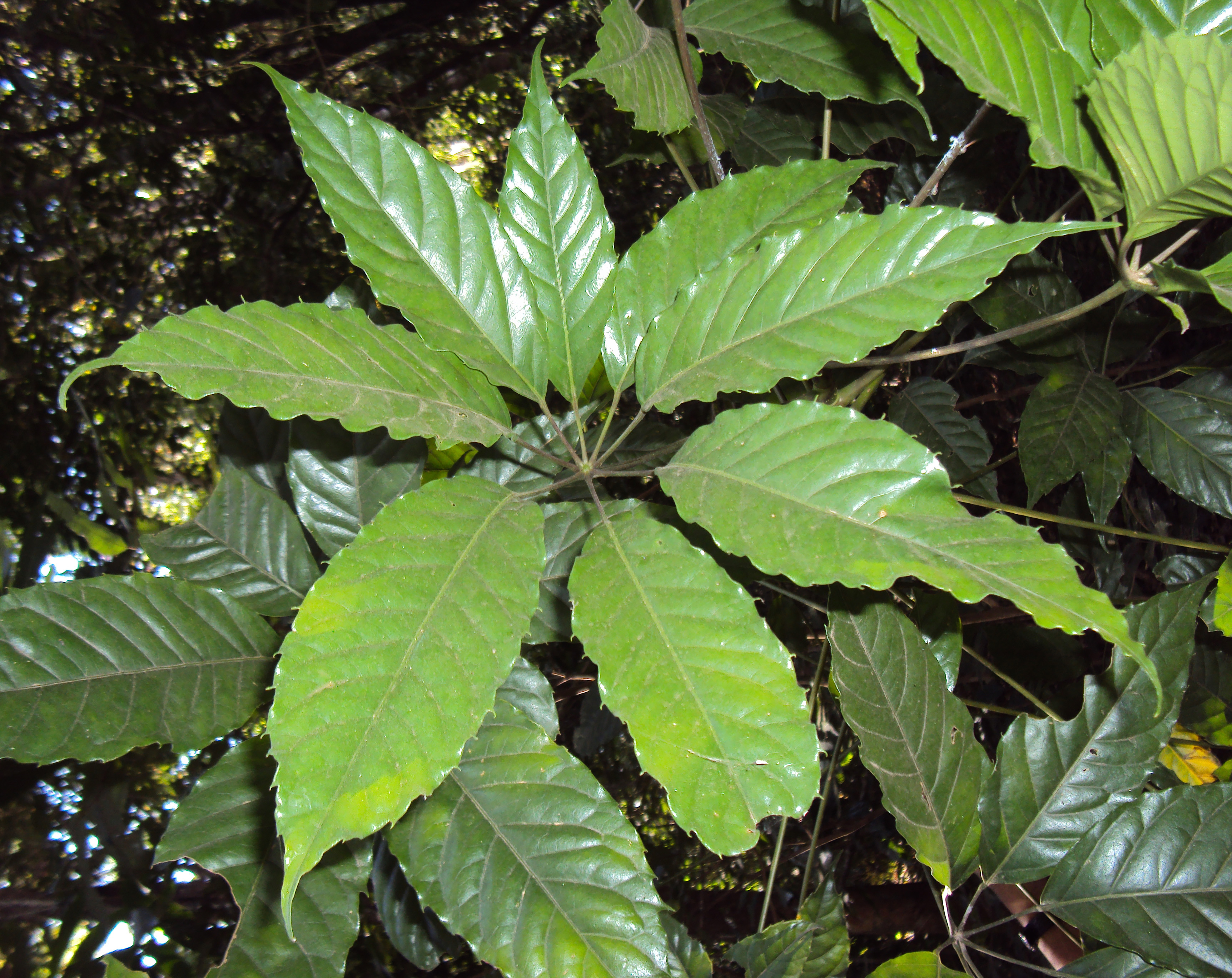 Schefflera racemosa